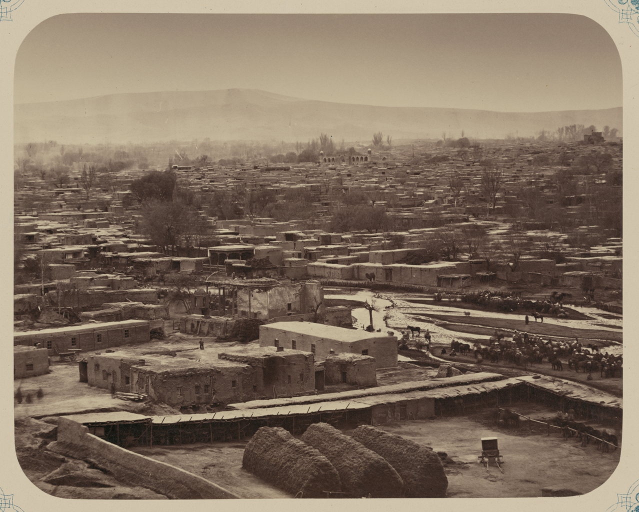 This photograph is from the ethnographical part of Turkestan Album, a comprehensive visual survey of Central Asia undertaken after imperial Russia assumed control of the region in the 1860s. Commissioned by General Konstantin Petrovich von Kaufman (1818–82), the first governor-general of Russian Turkestan, the album is in four parts spanning six volumes: “Archaeological Part” (two volumes); “Ethnographic Part” (two volumes); “Trades Part” (one volume); and “Historical Part” (one volume). The principal compiler was Russian Orientalist Aleksandr L. Kun, who was assisted by Nikolai V. Bogaevskii. The album contains some 1,200 photographs, along with architectural plans, watercolor drawings, and maps. The “Ethnographic Part” includes 491 individual photographs on 163 plates. The photographs show individuals representing the different peoples of the region (Plates 1–33); daily life and rituals (Plates 34–91); and views of villages and cities, street vendors, and commercial activities (Plates 92–163). Bazaars; Cities and towns; Ethnographic photographs; Markets; Photographic surveys; Plazas; Turkic peoples